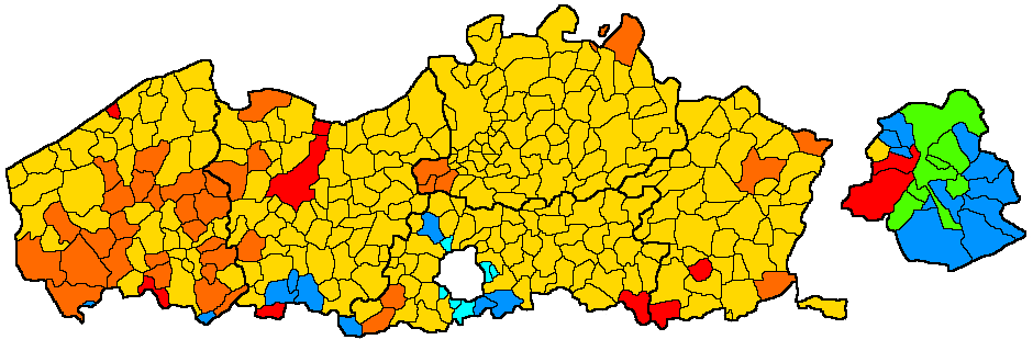 Results for the elections of 25 May 2014 for the Flemish Parliament ( largest party per municipality. N-VA CD&V sp.a Open Vld Groen UF